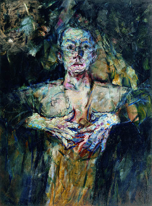 Avowal (Confession)